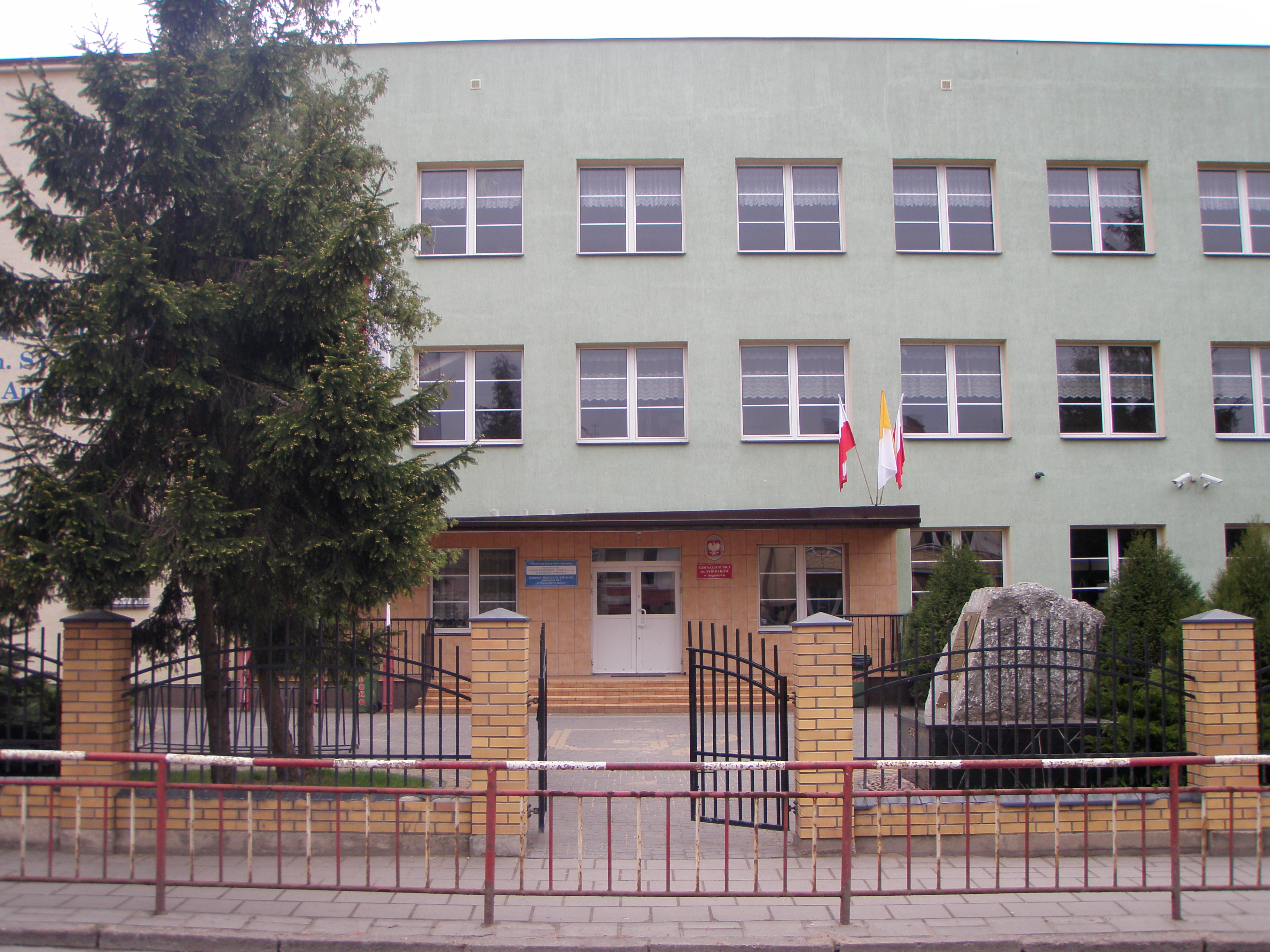 2nd Gymnasium in Augustów, Poland